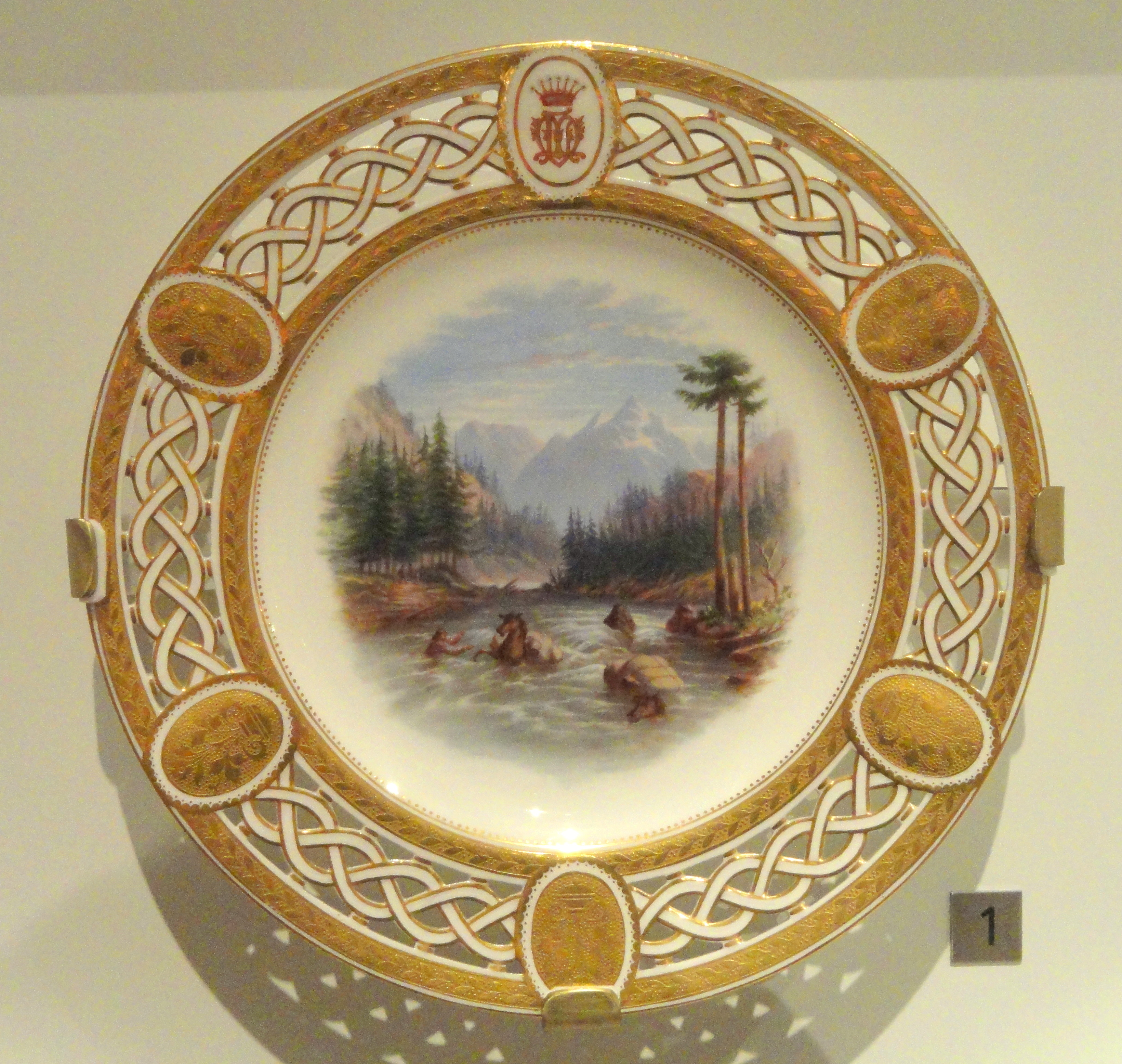 [ Depicting this passage from The North-West Passage by land: being the narrative of an expedition from the Atlantic to the Pacific, undertaken with the view of exploring a route across the continent to British Columbia through British territory, by one of the Northern passes in the Rocky Mountains, by William Wentworth Fitzwilliam of Milton, Cassell, Petter, and Galpin, 1865. Exhibit in the Royal Ontario Museum, Toronto, Ontario, Canada. This exhibit is old enough so that it is in the public domain. Photography was permitted in the museum. I took this photograph and release it into the public domain.